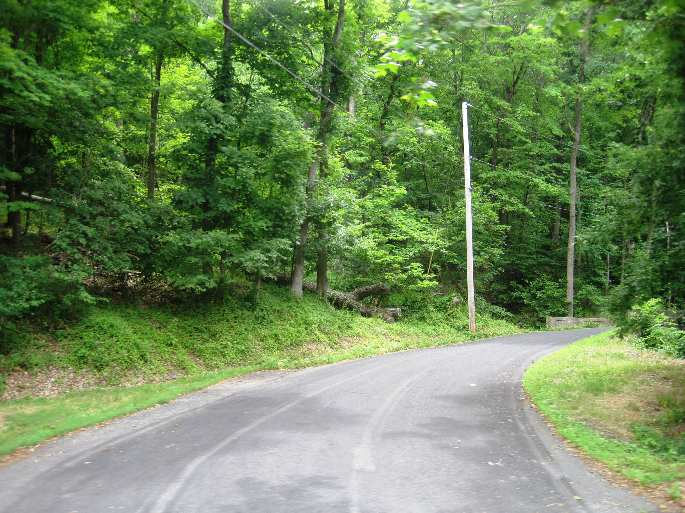 Photo of Tumble Falls, New Jersey, an unincorporated community within Kingwood Township. Photo taken looking east along Tumble Falls Road from New Jersey Route 29.